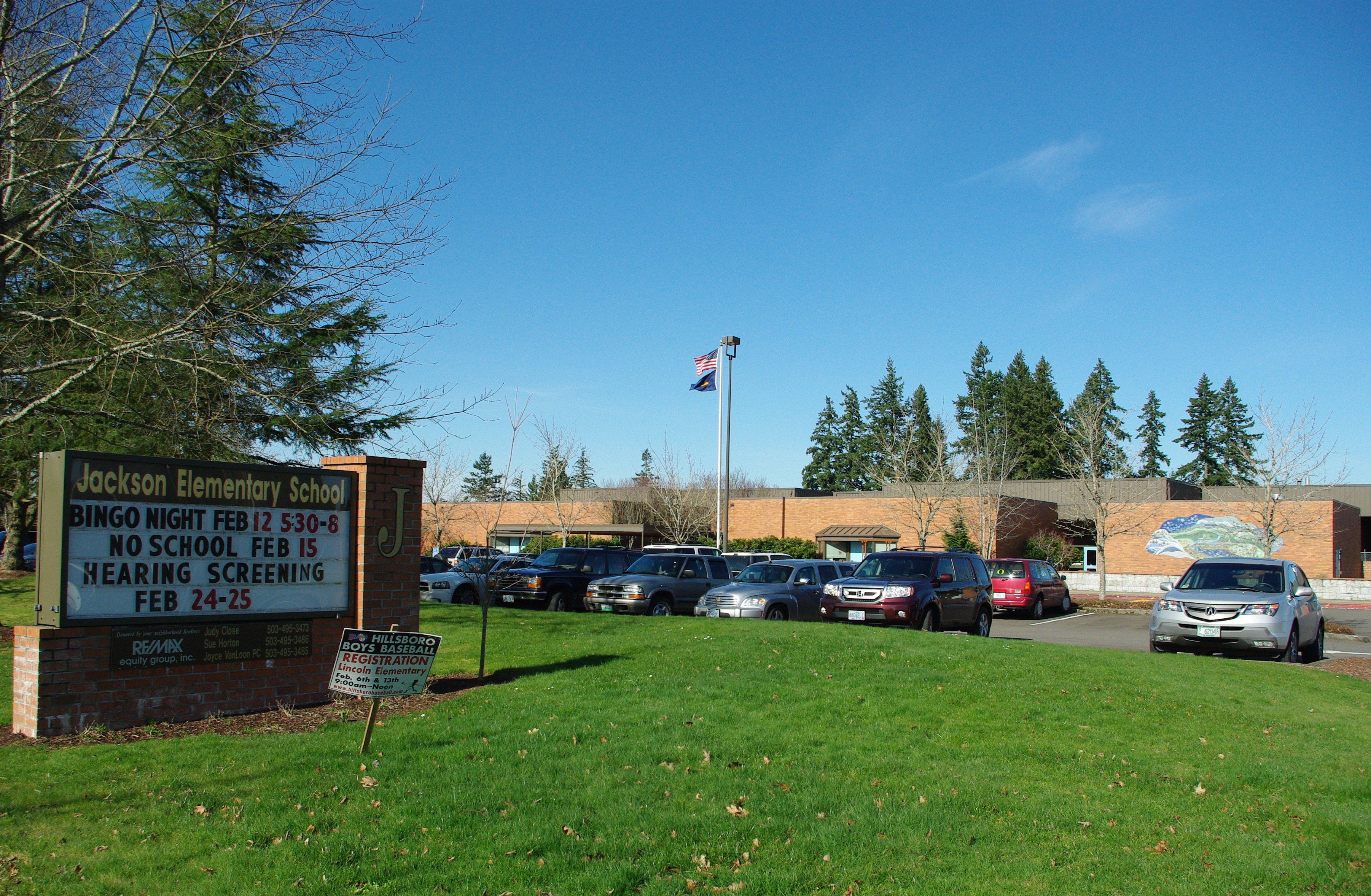 Jackson Elementary School in Hillsboro, Oregon, part of the Hillsboro School District.